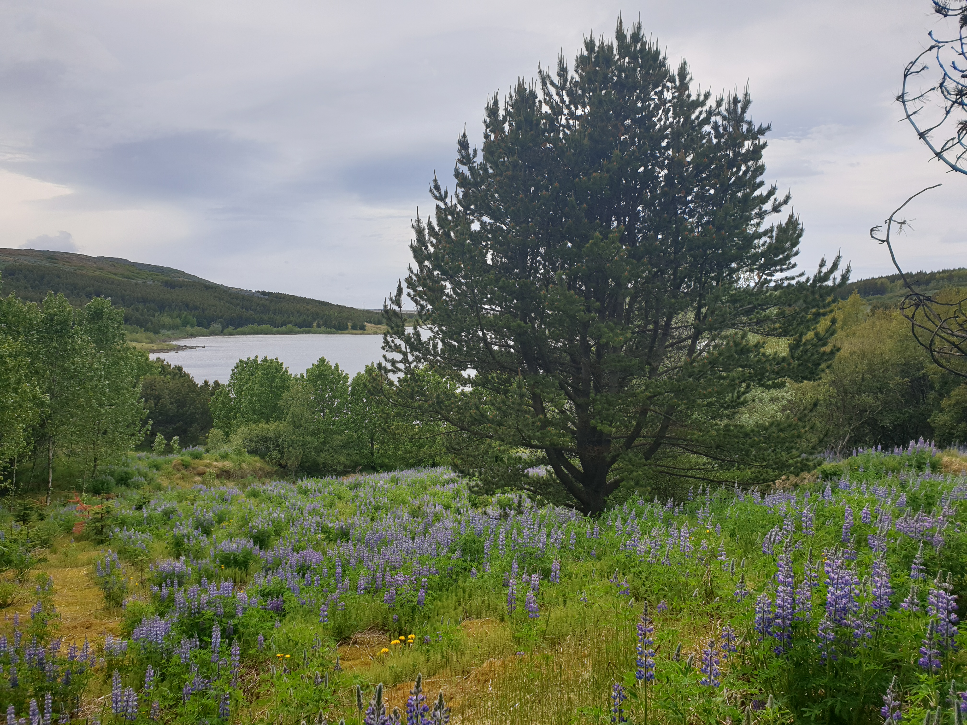 Höfðaskógur